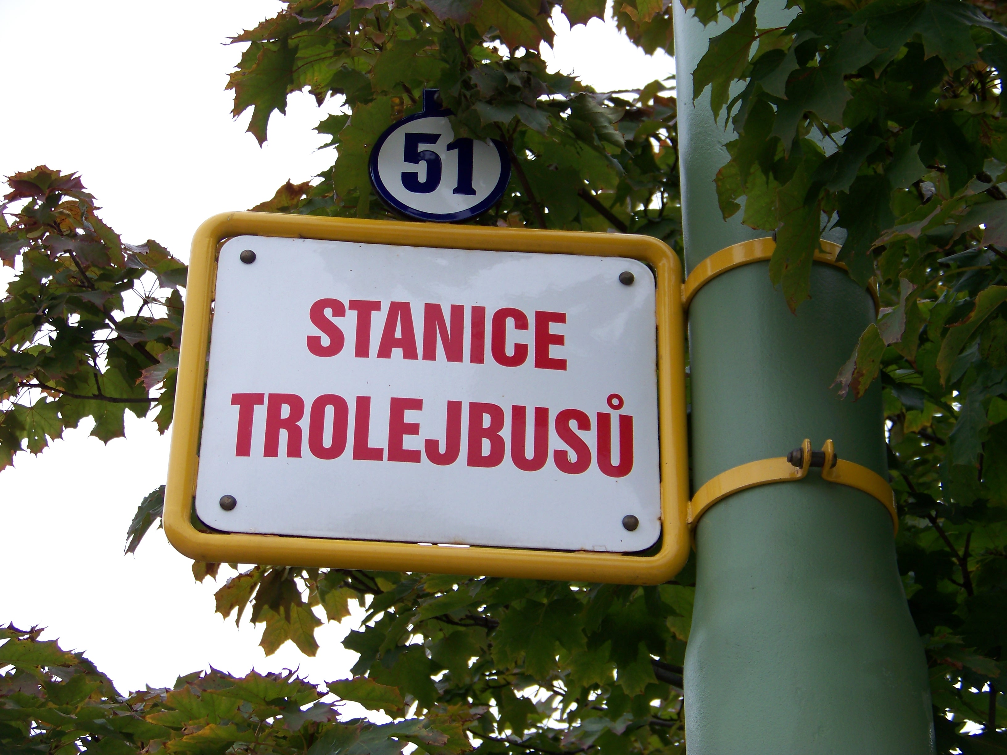 Prague-Vinohrady, the Czech Republic. Korunní, trollebus stop Orionka as a memorial.